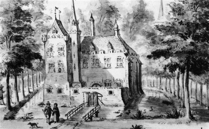 Anonymous 17th century drawing of Bottestein castle, Vleuten, Netherlands.